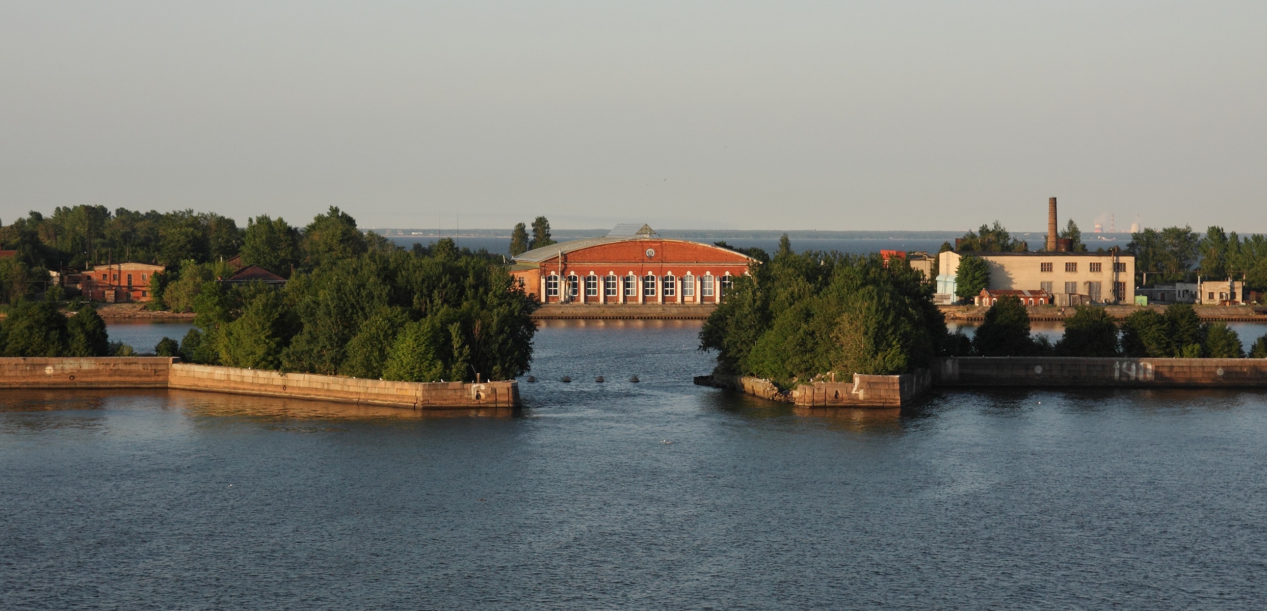 The south-eastern end of Kotlin Island. The North-West Thermal Power Plant can be seen in the horizon to the the far right.